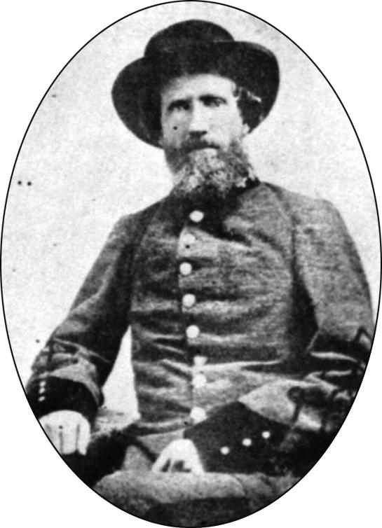 Colonel Evander McNair (1820-1902), Commanded the 4th Arkansas Infantry Regiment and was later promoted to Brigadier-General.